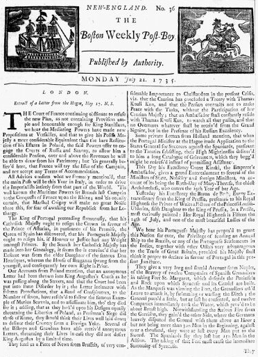 From: Boston Weekly Post-Boy Further information: American Antiquarian Society. Catalog.